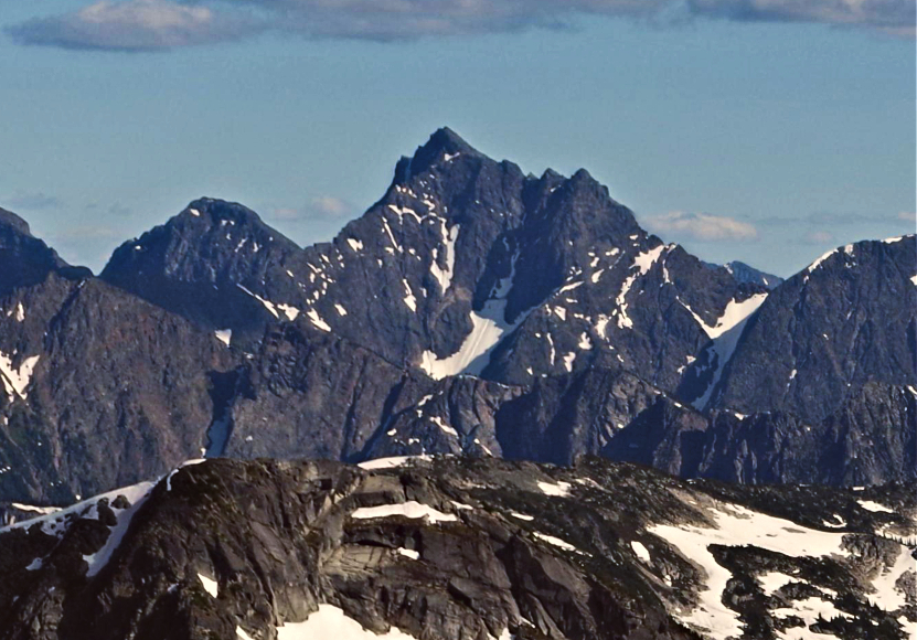 Mount Payne in North Cascades seen from Eaton Peak